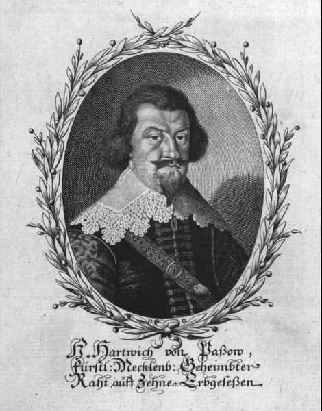 Portrait of Hartwig von Passow (Geheimer Rat)